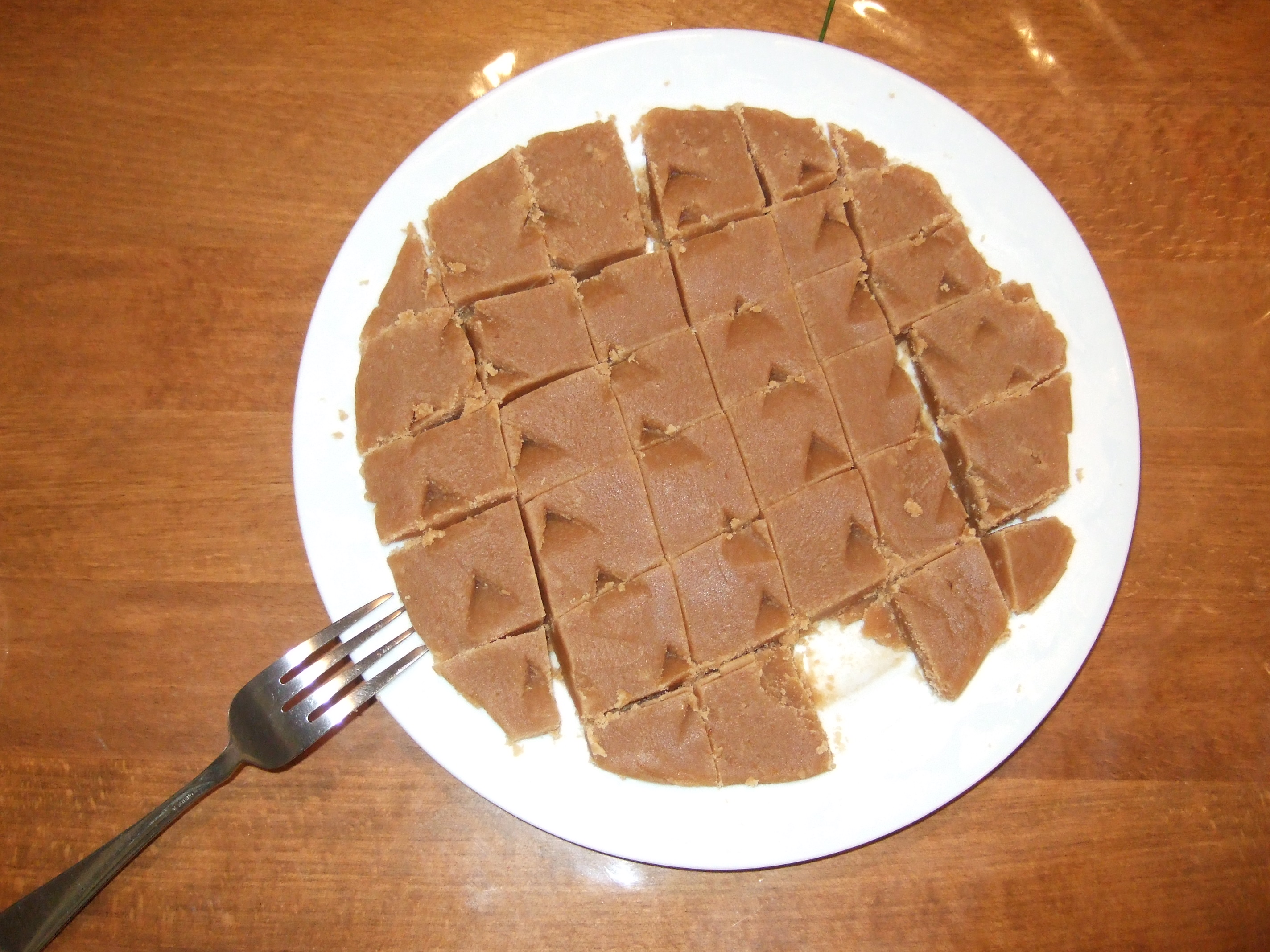 Home made halva